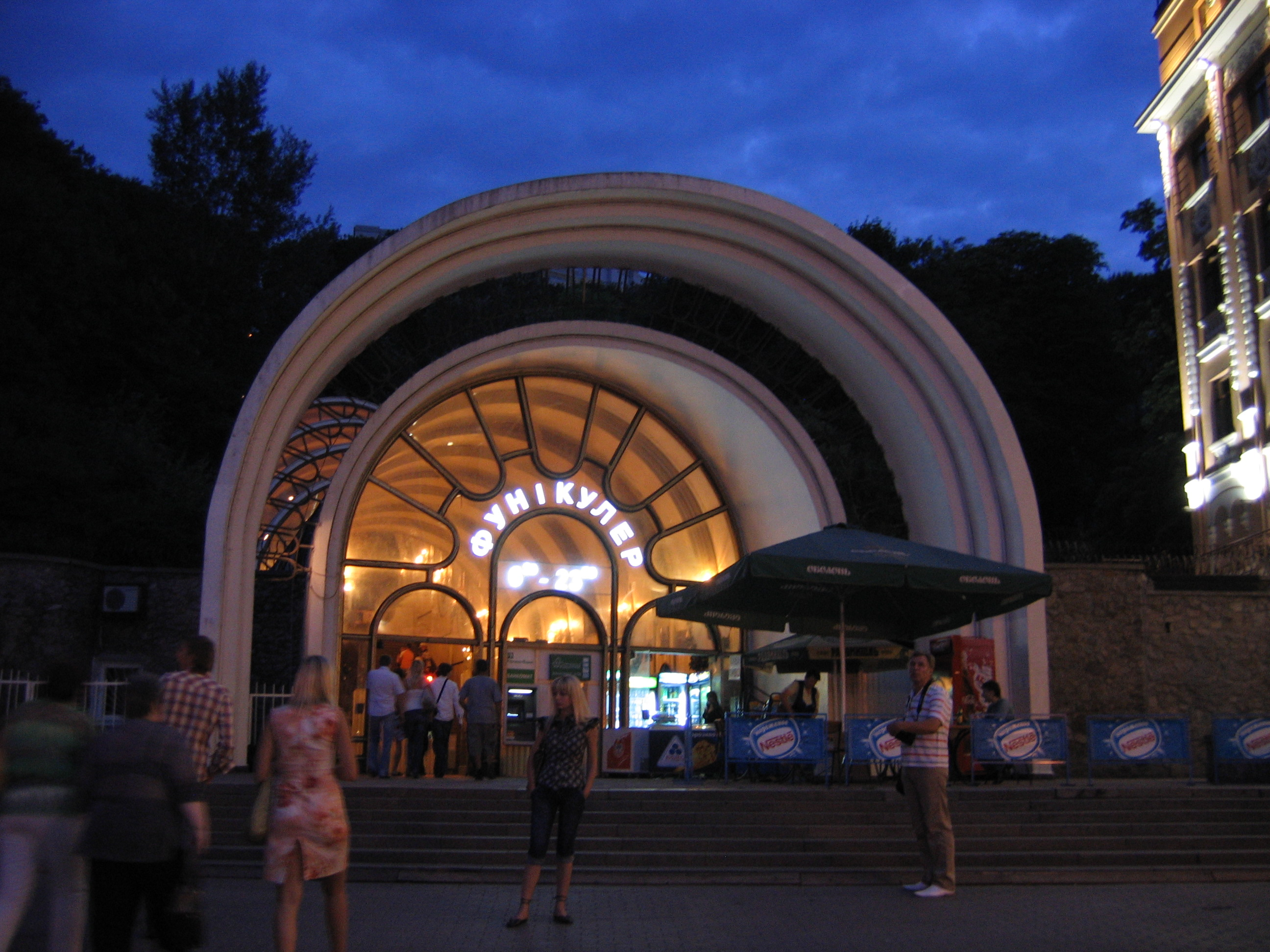 Kiev funicular. Lower station at night.